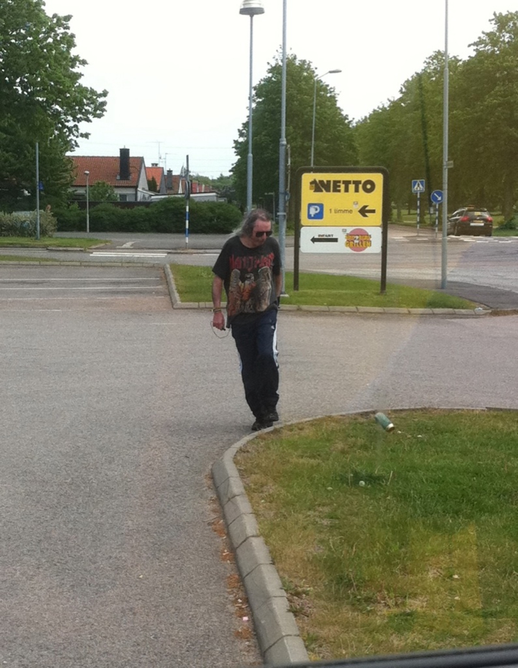 Luis B Galvez on a healthy walk through Halmstad.